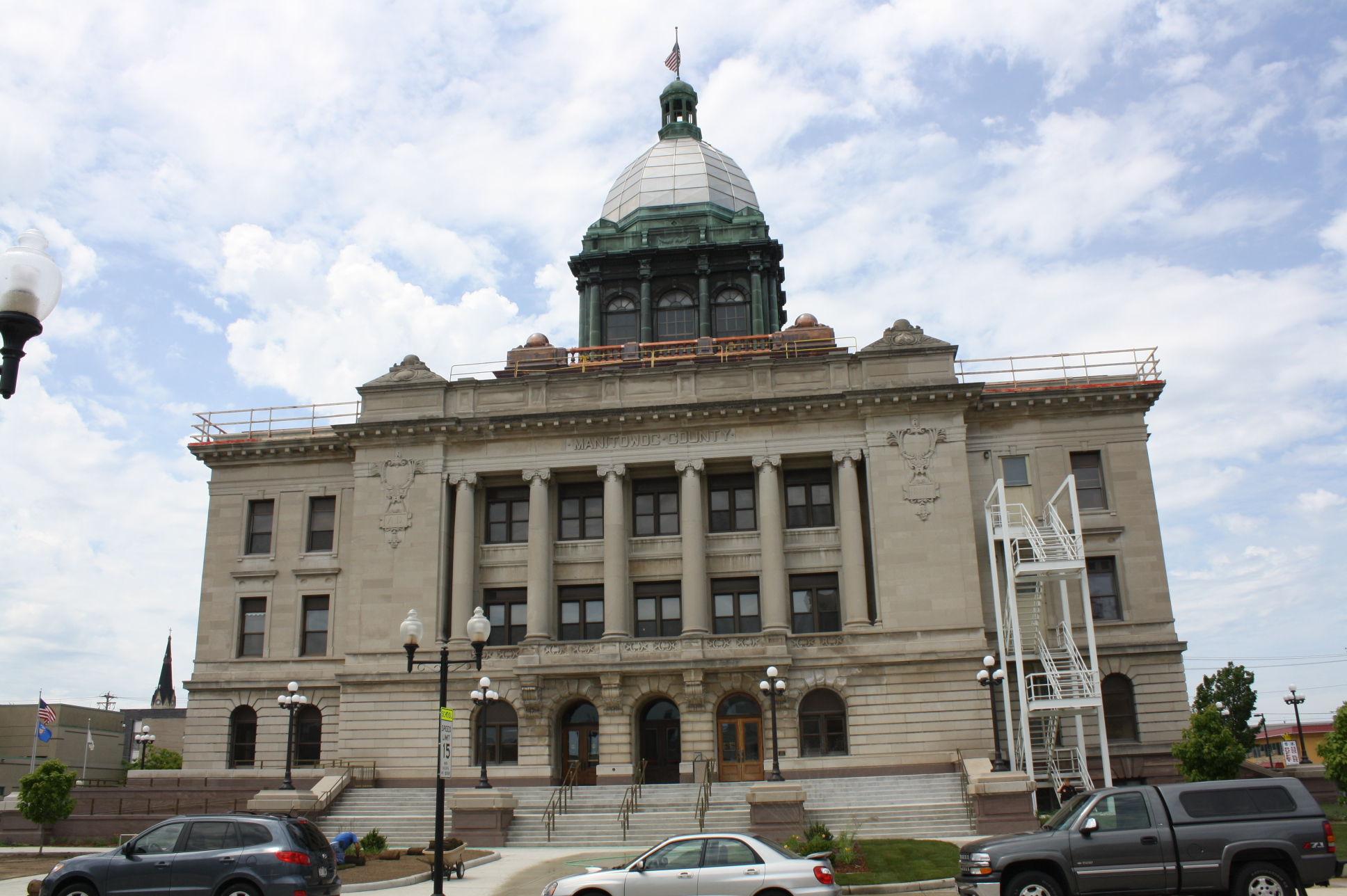 The Manitowoc County courthouse in Manitowoc, Wisconsin, USA.